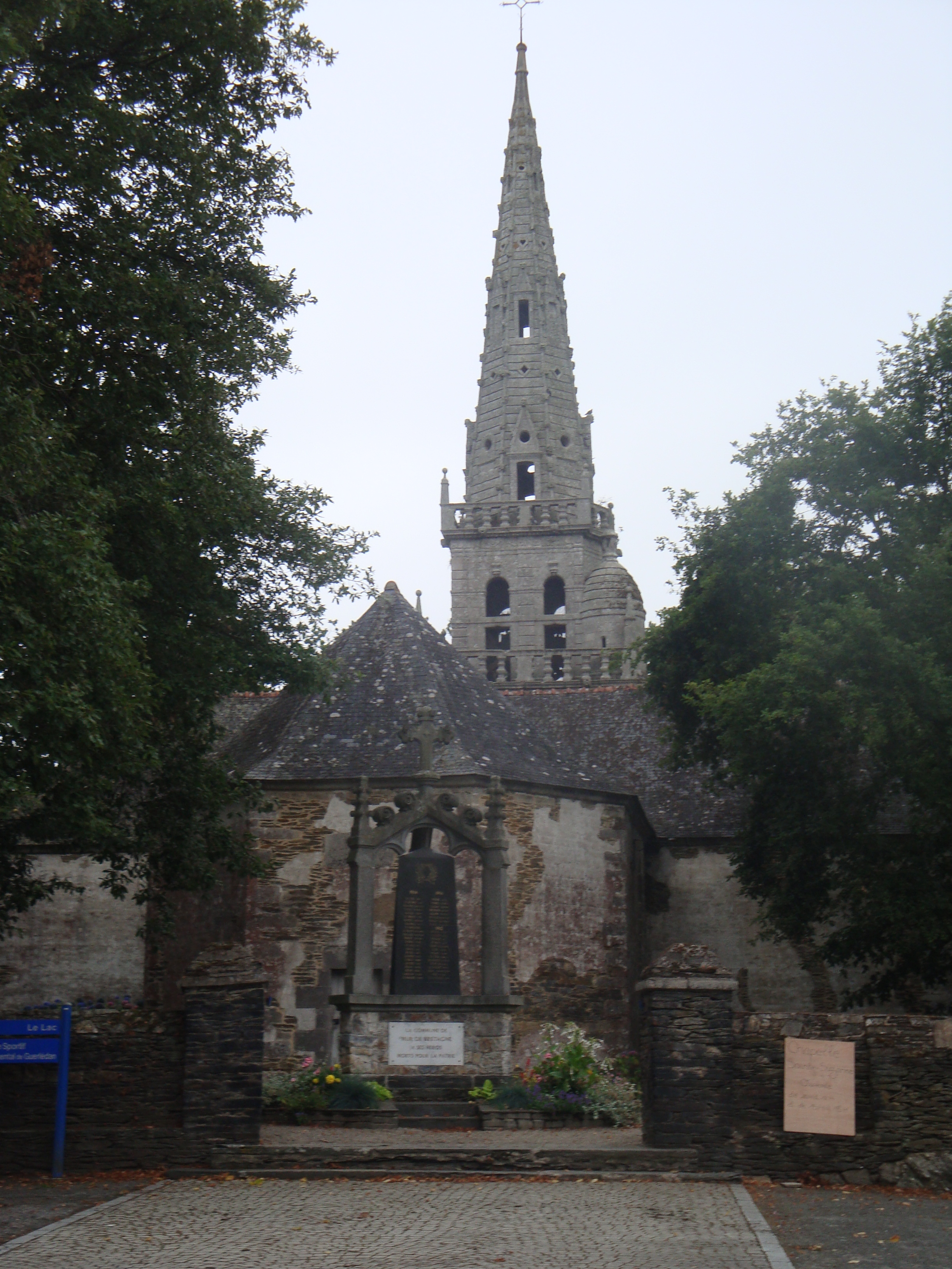 According to the leaflet that was given to me, Suzanne was a virtuous Jewish princess, who made her appearance in the Old Testament. Daniel, of the lions fame, rescued her from two characters who accused her of adultery.